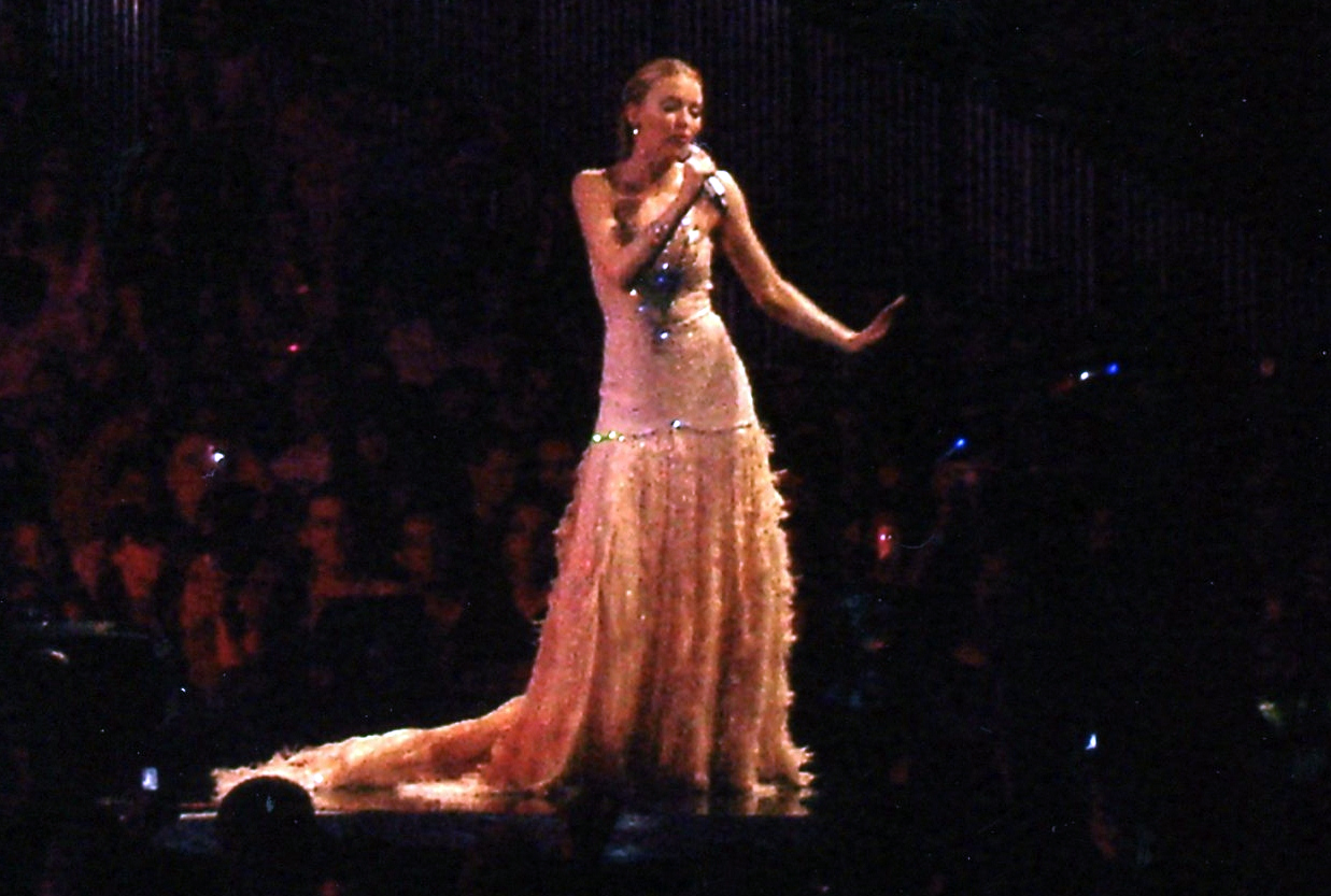 Kylie Minogue - Earls Court 060505 (12)